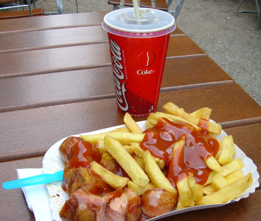 Currywurst with French fries